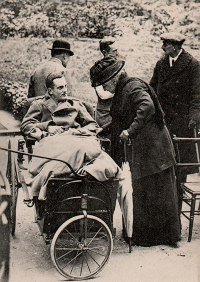 The Empress Eugénie with an English soldier